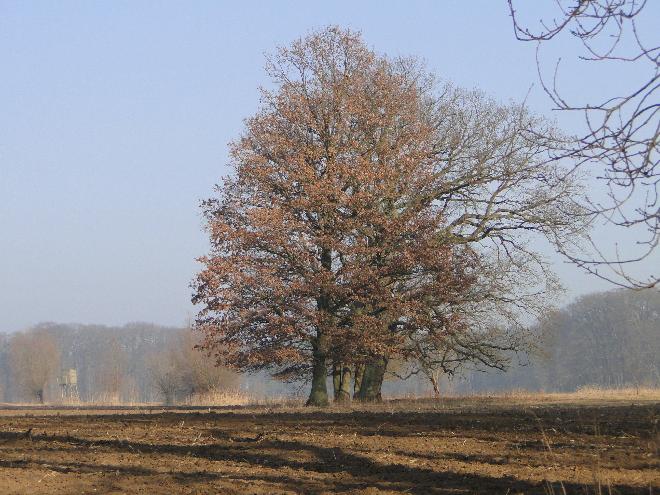 Oaks/Natural monuments in Glave, district Güstrow, Mecklenburg-Vorpommern, Germany